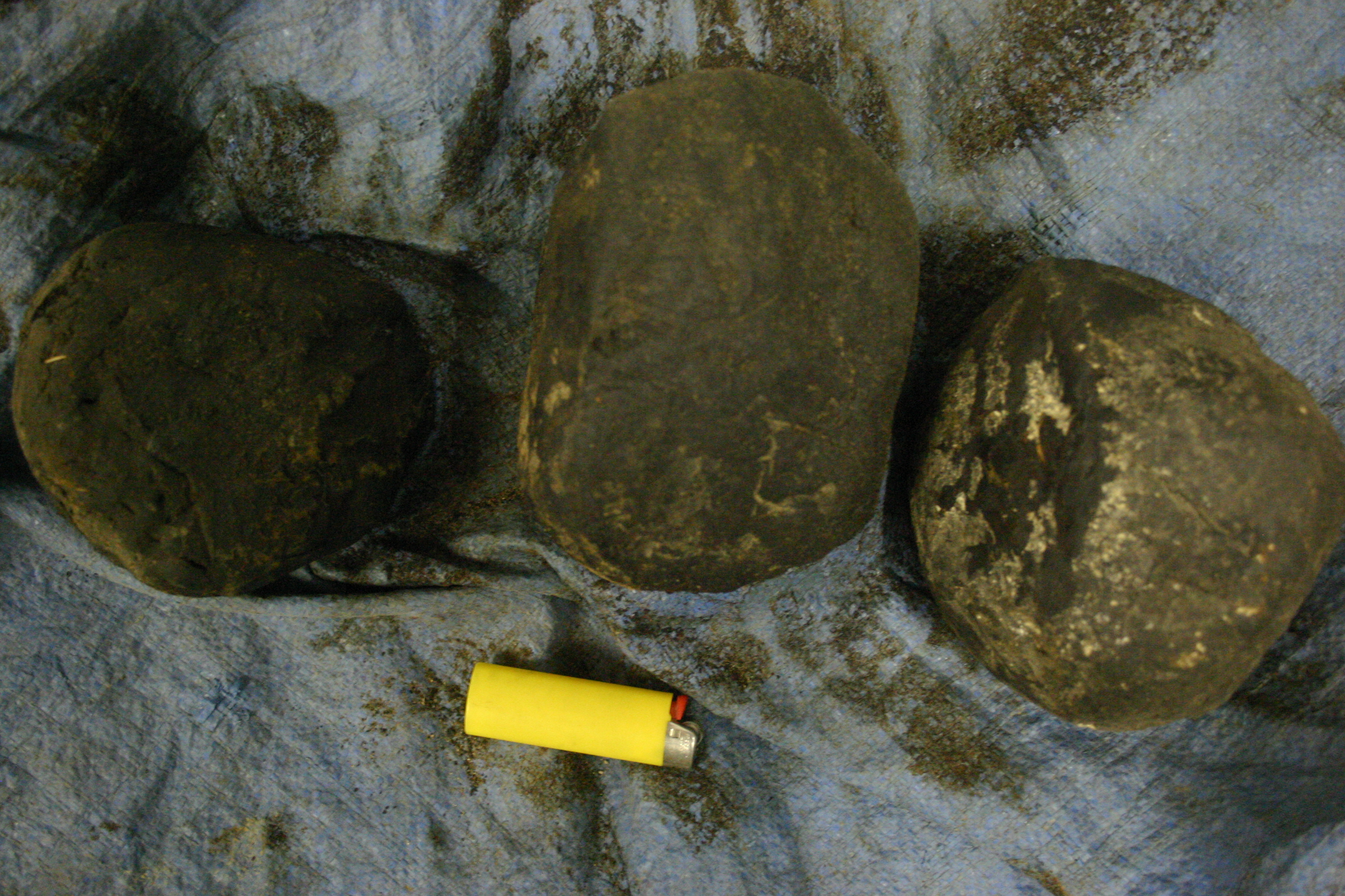 Black tar (raw) opium seized in Afghanistan, spring 2005. Photo by Bentlogic. Photo relicensed on request to CC-by-sa